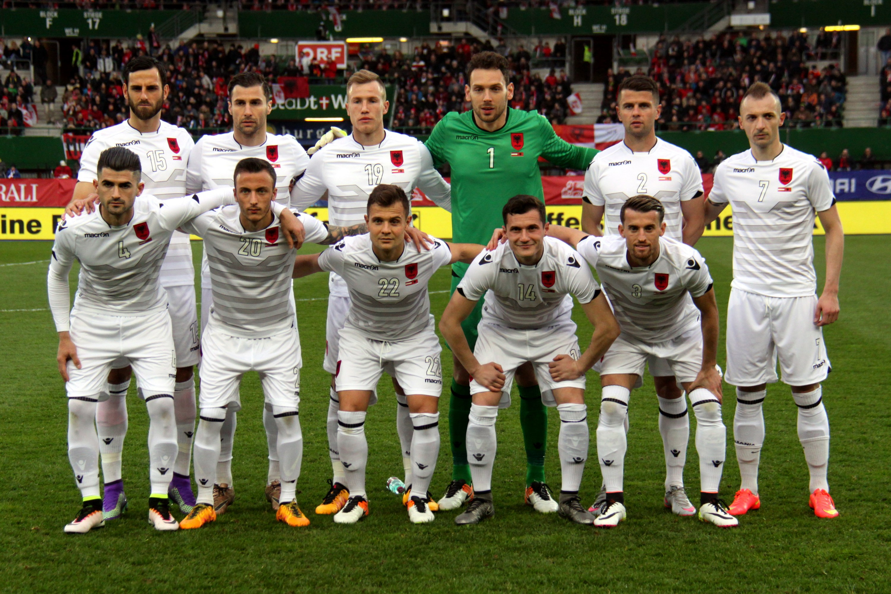 Friendly match – Austria (red shirts) vs. Albania (white shirts) 2–1 (2–0) on 2016-03-26 in Ernst-Happel-Stadion, Vienna – The photo shows the Albanian national football team (from left to right): 1st row: Elseid Hysaj (Napoli), Ergis Kaçe (PAOK Thessaloniki), Amir Abrashi (SC Freiburg), Taulant Xhaka (FC Basel), Ermir Lenjani (FC Nantes); 2nd row: Mergim Mavraj (1. FC Köln), Lorik Cana (Nantes), Bekim Balaj (Rijeka), Etrit Berisha (GK, Lazio), Andi Lila (PAS Giannina) and Ansi Agolli (Qarabağ)